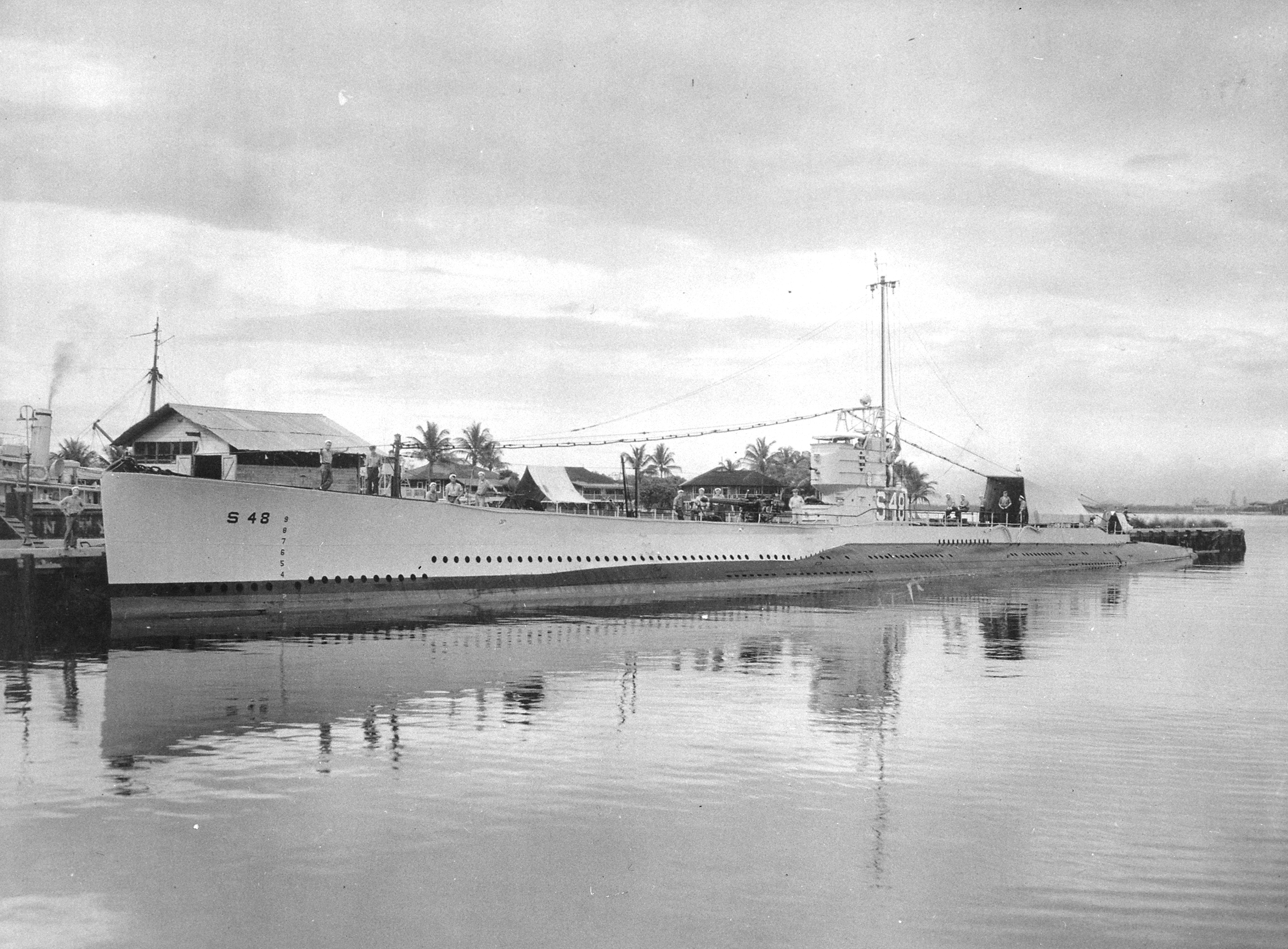 S-48 (SS-159), at Submarine Base, Coco Solo, Panama, 16 May 1931. Note her raised bow, with low bulwarks running aft to beyond her 4"/50 deck gun.